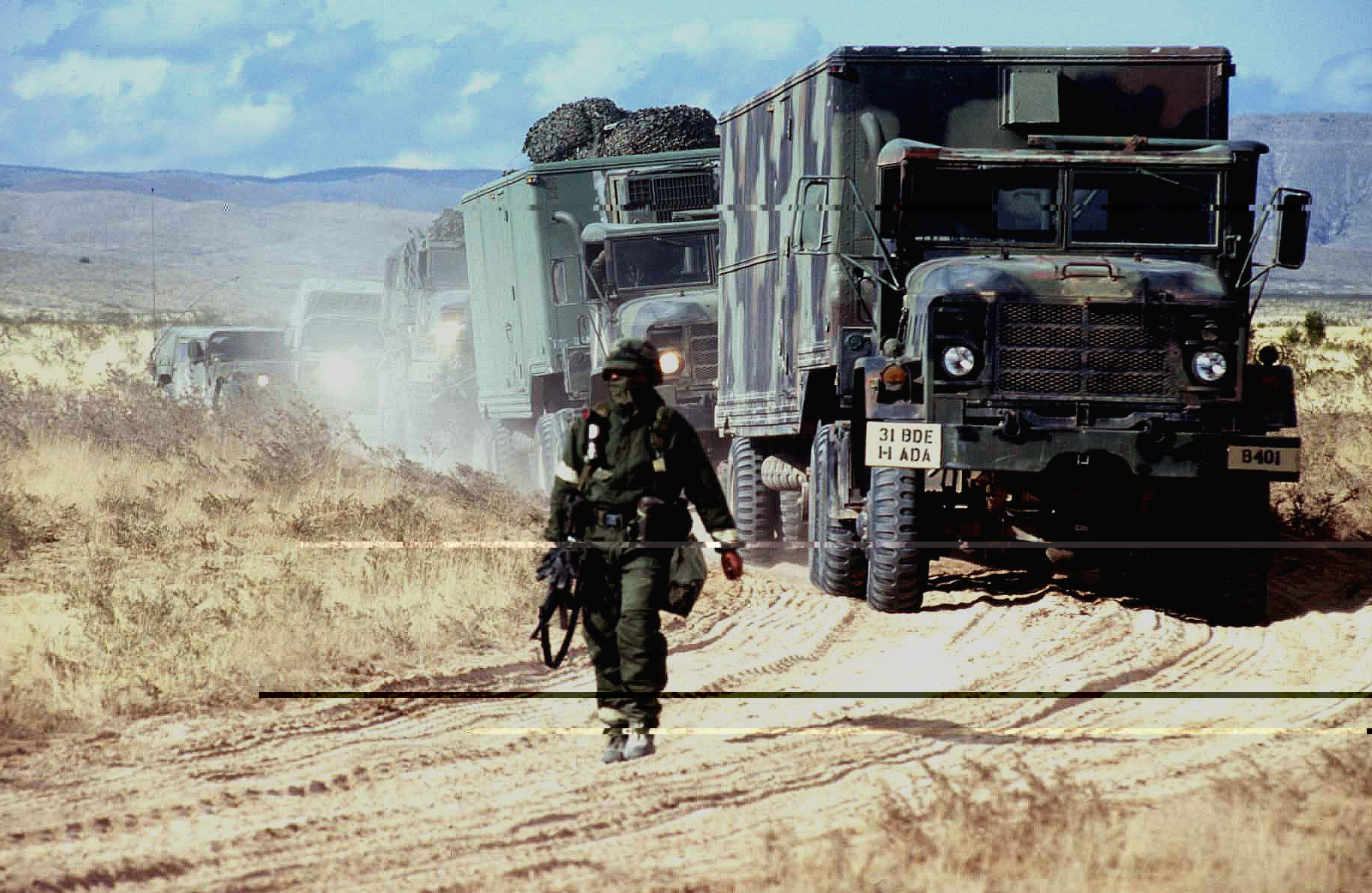 Vehicles of the 31st Air Defense Artillery Brigade Patriot missile battery are ground-guided by a soldier to their next site at Otero Mesa, N.M., on April 23, 1997, during Exercise Roving Sands '97. More than 20,000 service members from all branches of the armed forces of the U.S., Canada, Germany, and the Netherlands are participating in Exercise Roving Sands '97. The exercise is designed to refine their skills in operations using an integrated air defense network of ground, missile and radar early warning systems combined with tactical fighter and bomber aircraft operating in a simulated high-threat environment. The Patriot missile battery, used for land-to-air defense, and the soldiers are deployed from Alpha Battery, 1st Regiment, 1st Battalion, Fort Bliss, Texas.